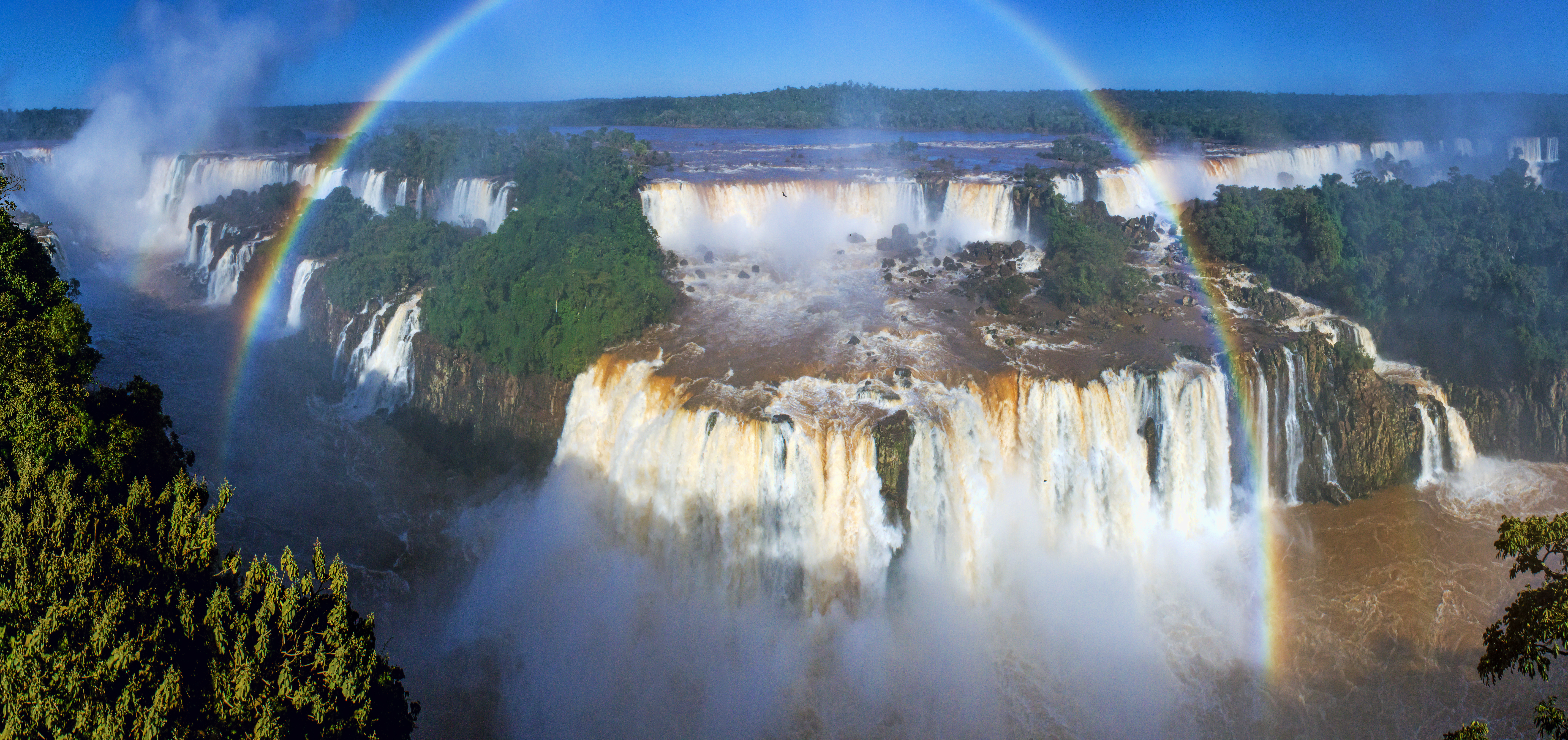 iguaza falls brazil side aerial panorama rainbow 2014